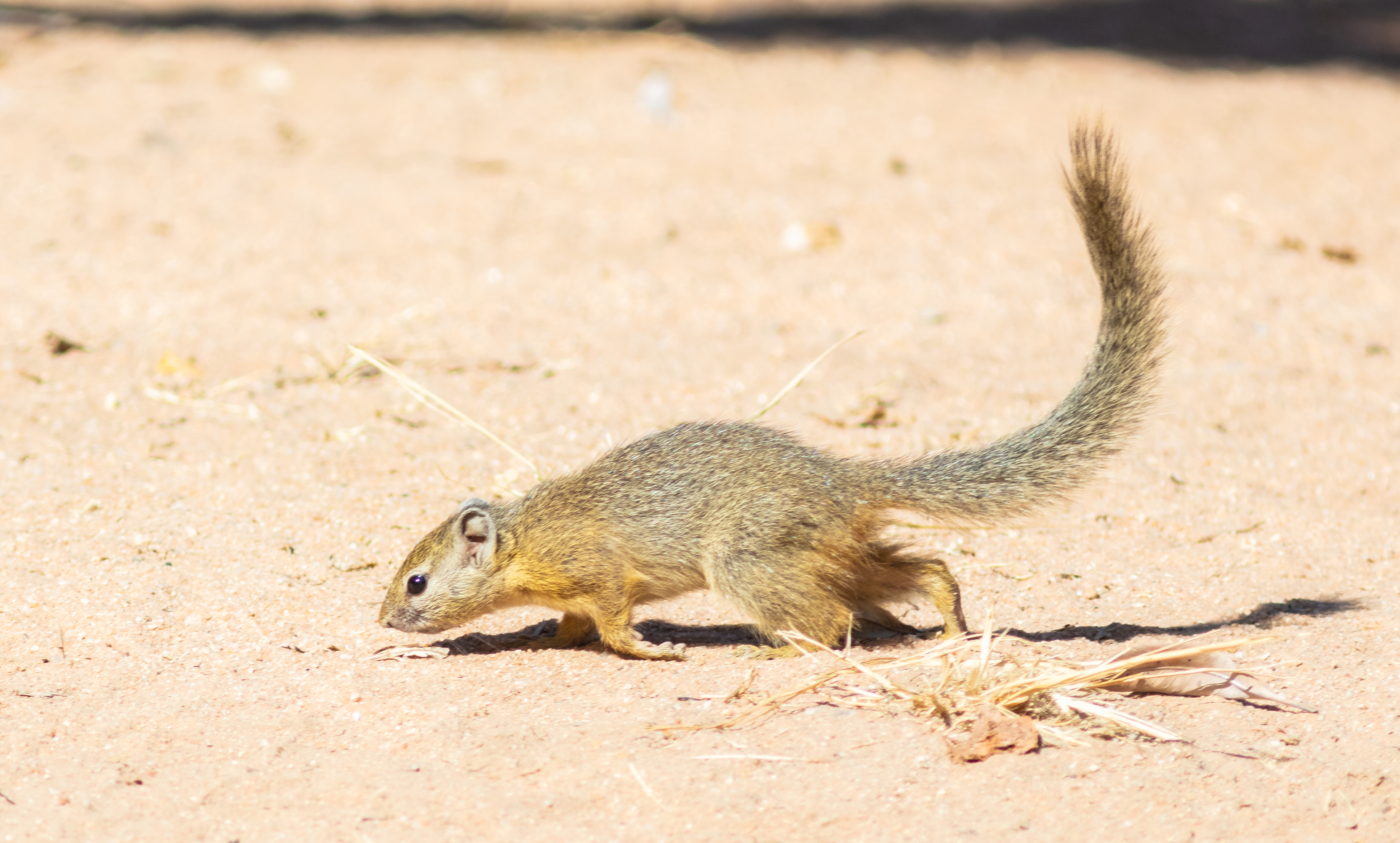 Smith's bush squirrel (Paraxerus cepapi), Kruger National Park, South Africa